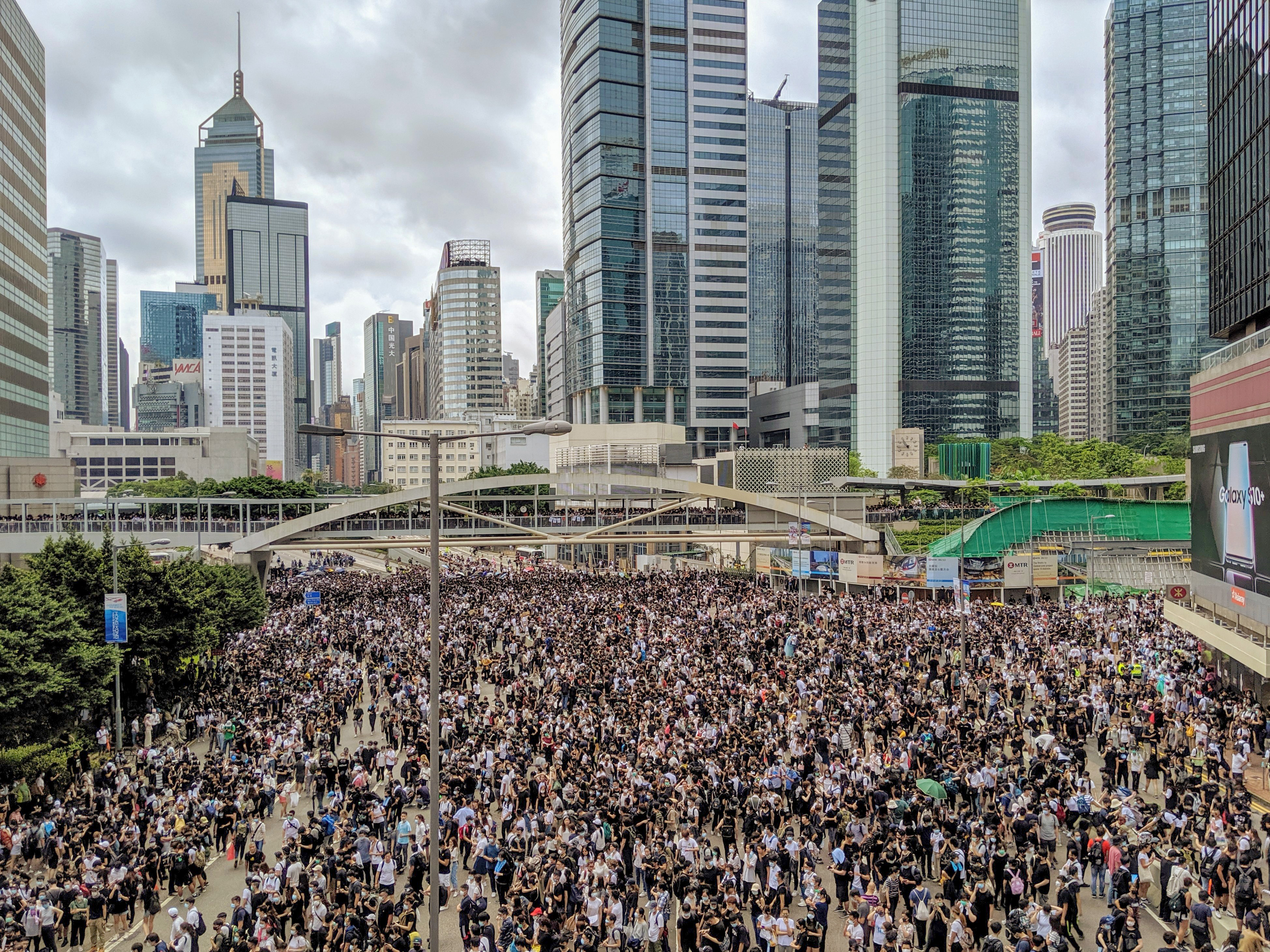 Hong Kong anti-extradition bill protest